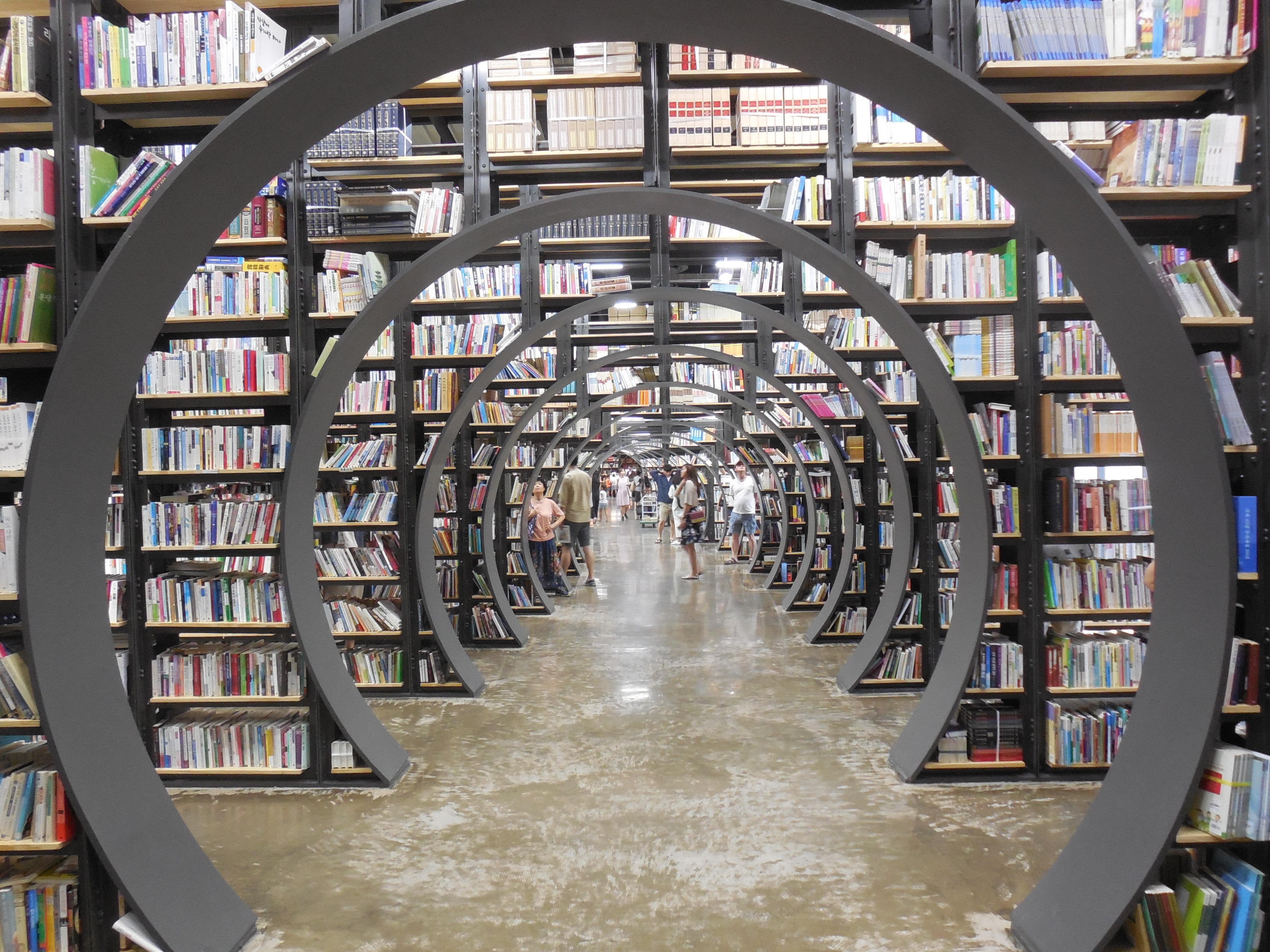 Corridor of Seoulbookbogo.